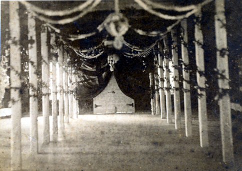 Canada Mills Weave Shed in Cornwall Ontario illuminated by Thomas Edison using his incandescent lamps in 1884. Photo prior to 1949 and resynthesized to repair damage.